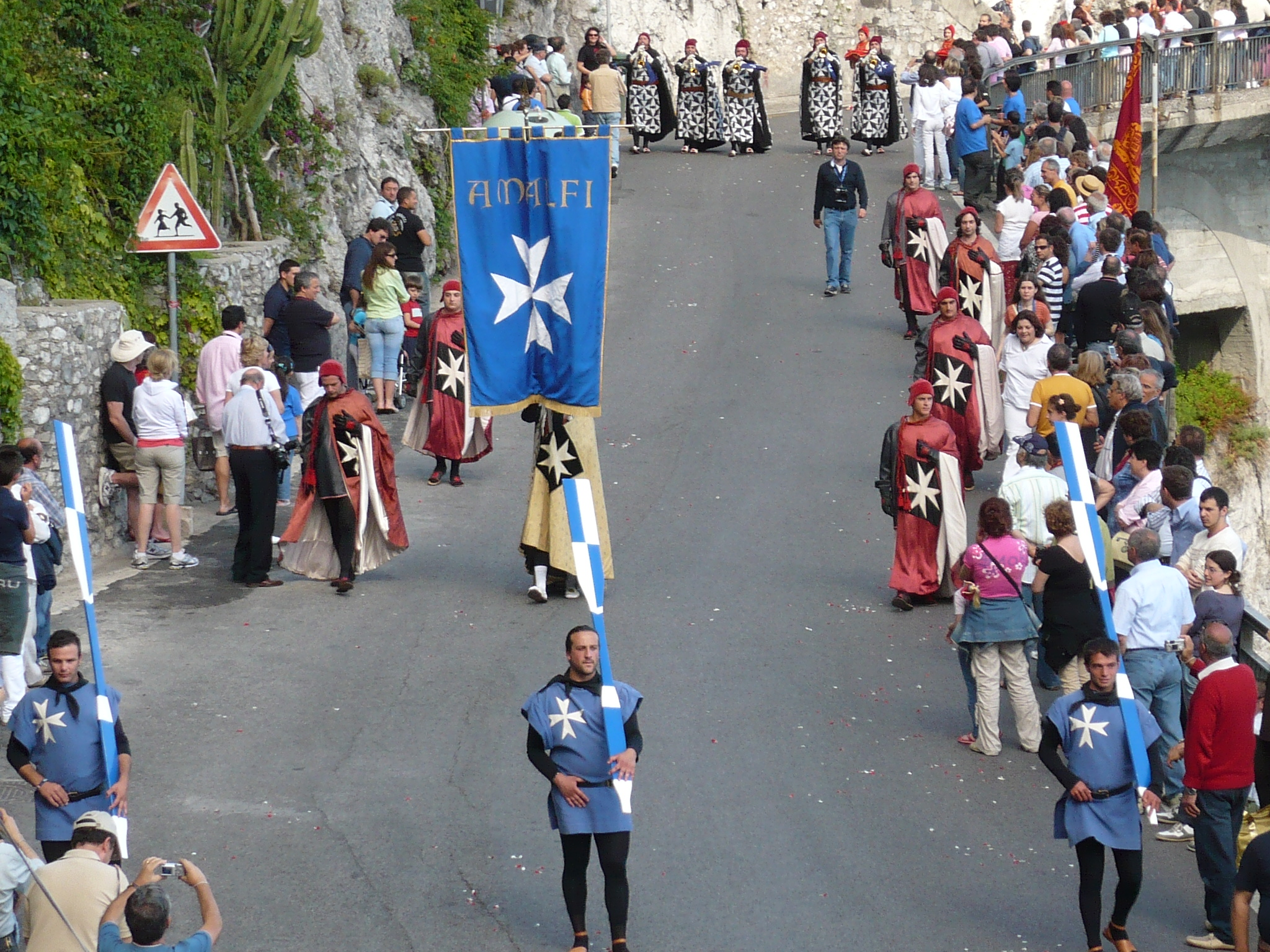 Historical Procession of Amalfi during the 53° Regatta of the Ancient Italian Maritime Republics. Amalfi, the 8th of June 2008.